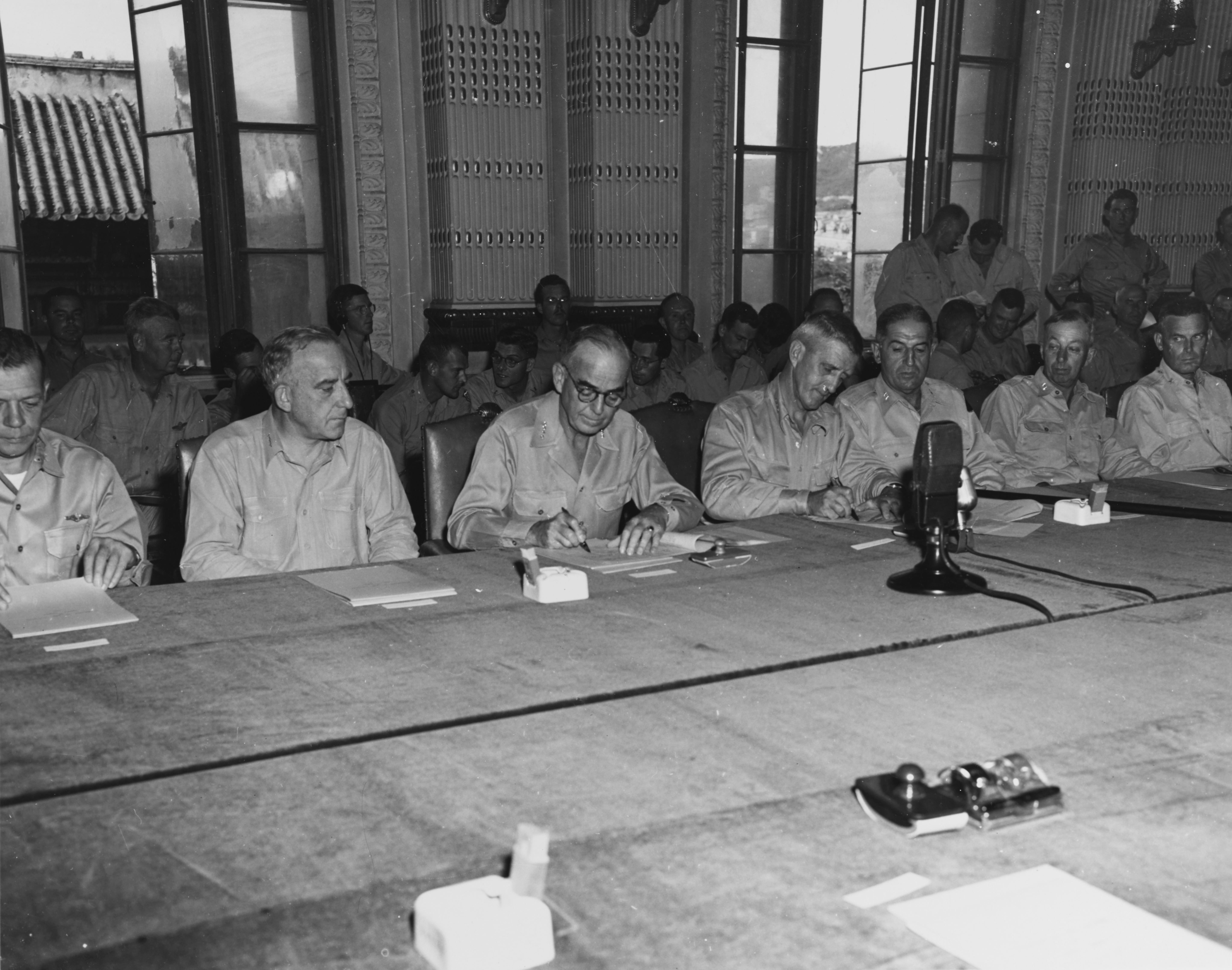 Surrender of Japanese Forces in Southern Korea, September 1945: U.S. delegates Admiral Thomas C. Kinkaid and Lieutenant General John R. Hodge sign surrender documents, during ceremonies in the Government Building at Keijo (Seoul), Korea, 9 September 1945. U.S. representatives present include (seated along table, left to right): Rear Admiral Francis S. Low; Vice Admiral Daniel E. Barbey; Admiral Kinkaid; Lieutenant General Hodge; Major General A.V. Arnold; Major General G.X. Cheeves and Brigadier General Joseph T. Ready.